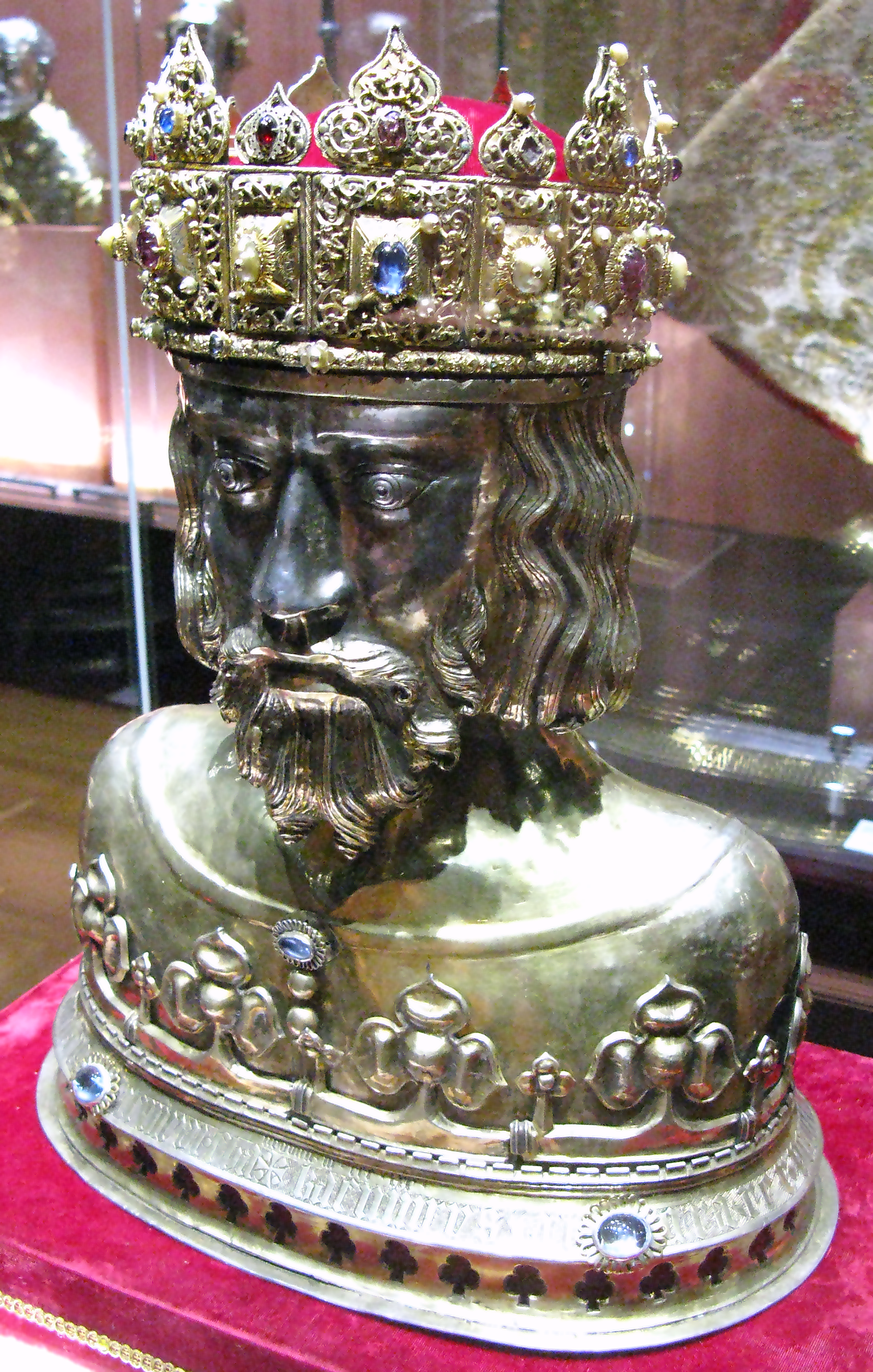 Photograph